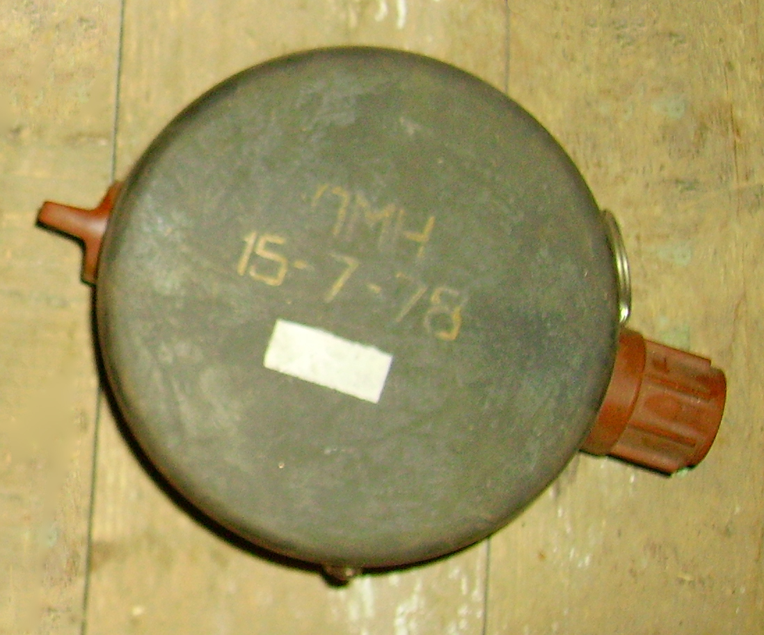 PMN anti-personnel mine